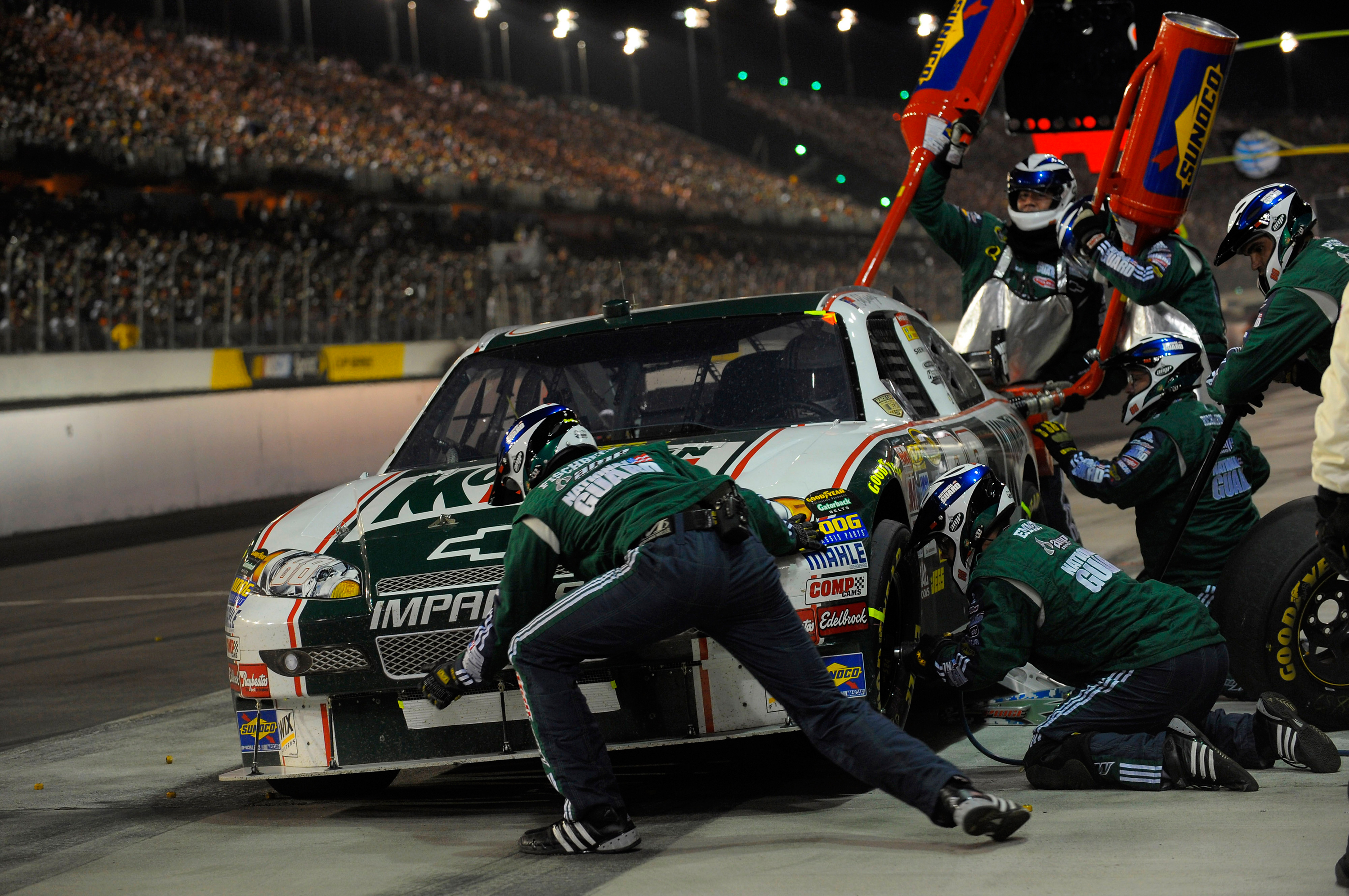 Dale Earnhardt, Jr. during a pit stop at Darlington Raceway in 2008.